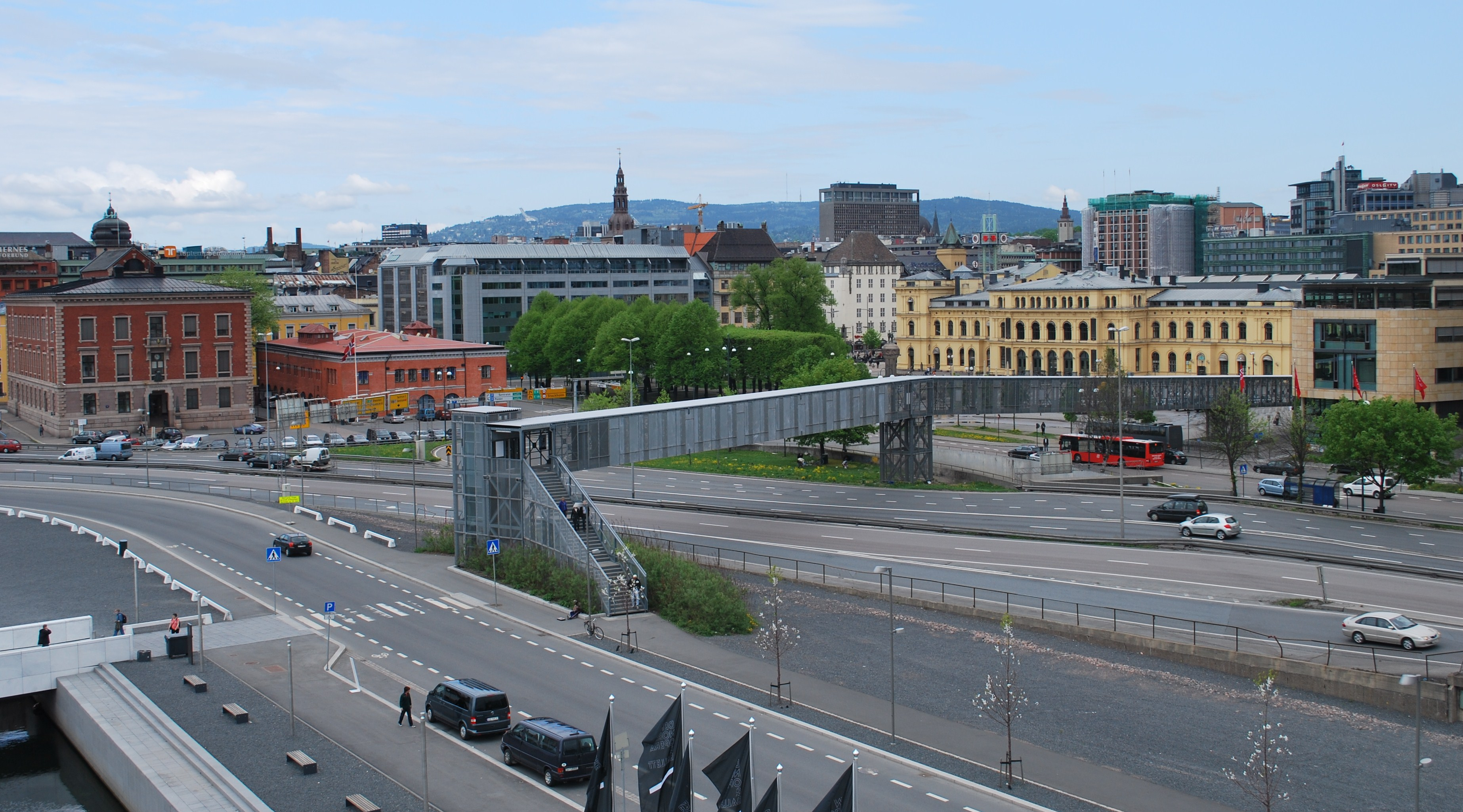 Area planned for new square Operaallmenningen, Bjørvika, Oslo